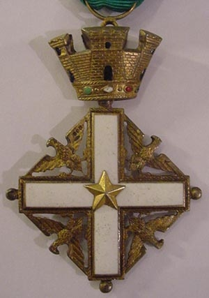 Badge of the Italian Order of Merit, old model